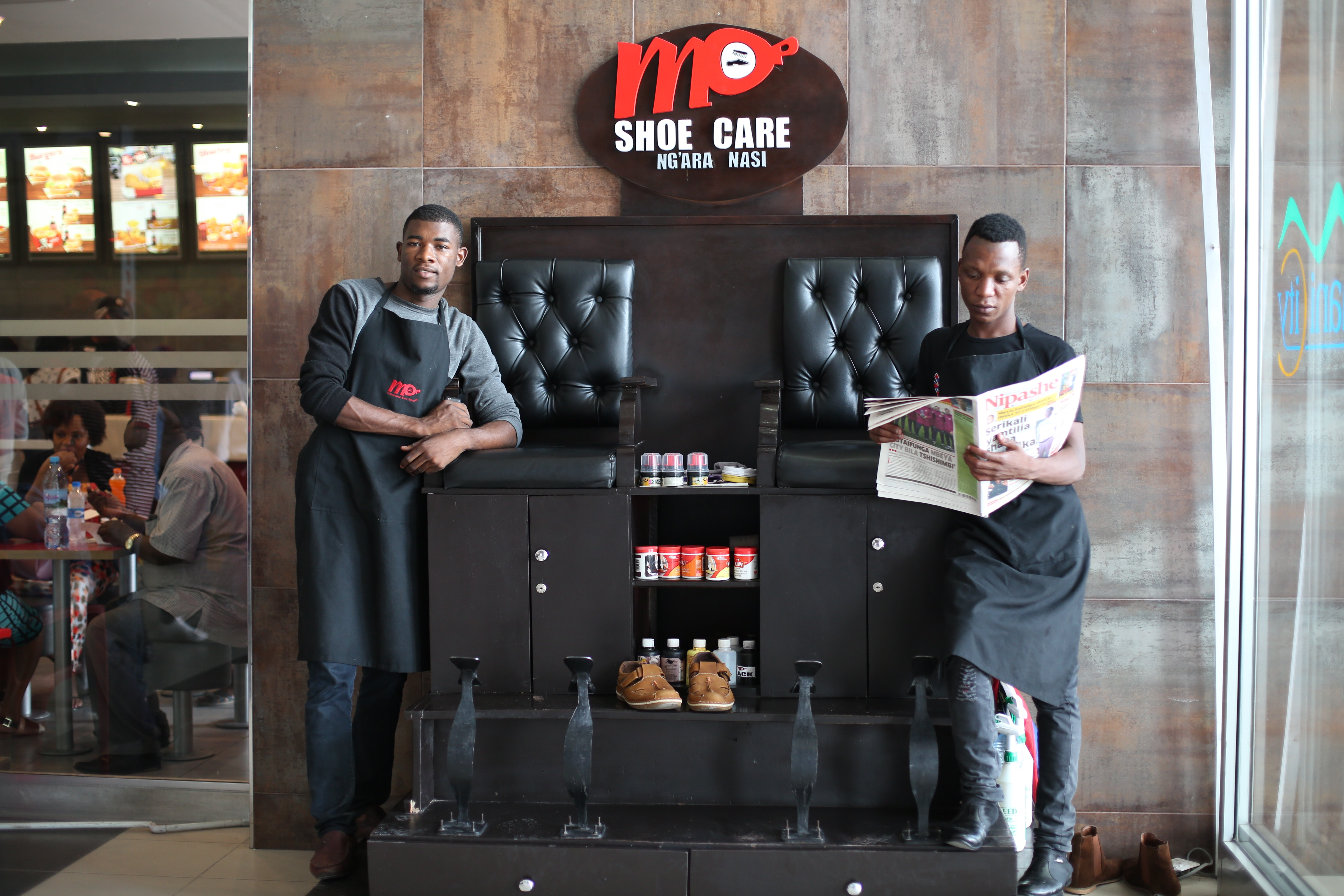 Meet these modern shoe shine guys at the main entrance of Mililani City Mall, Dar es salaam. This is an image of "African people at work" from Tanzania